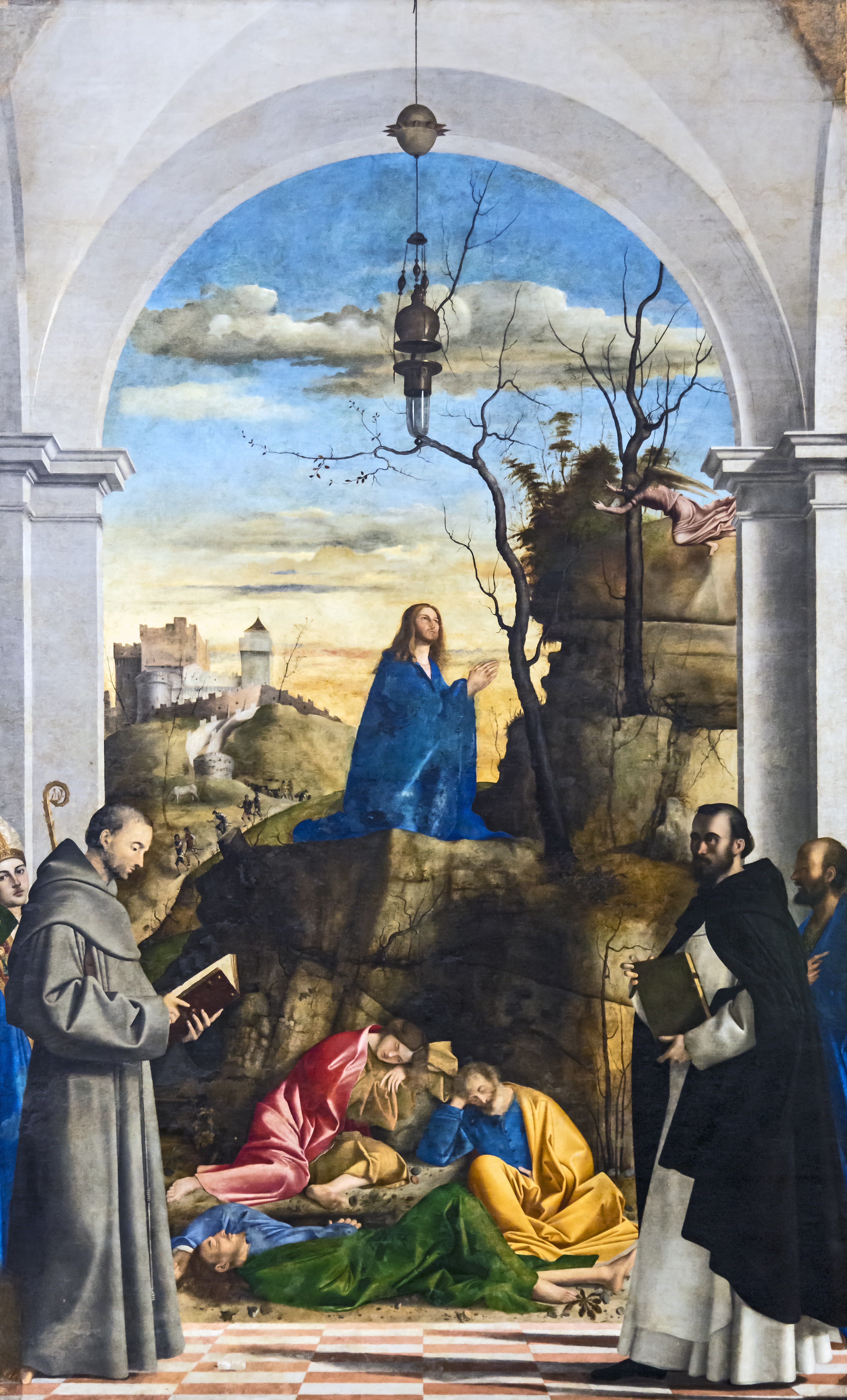 influenced of the style of Antonello da Messina (visible in the integrity of colour of the figures and the arrangement of saints at the sides of the portico, of the apostles, and of Christ absorbed in prayer) gives way in the landscape to lyrically dreaming passages clearly drawing their spirit from Giorgione. The represented saints are Louis of Toulouse, Francis, Dominic, and Mark.